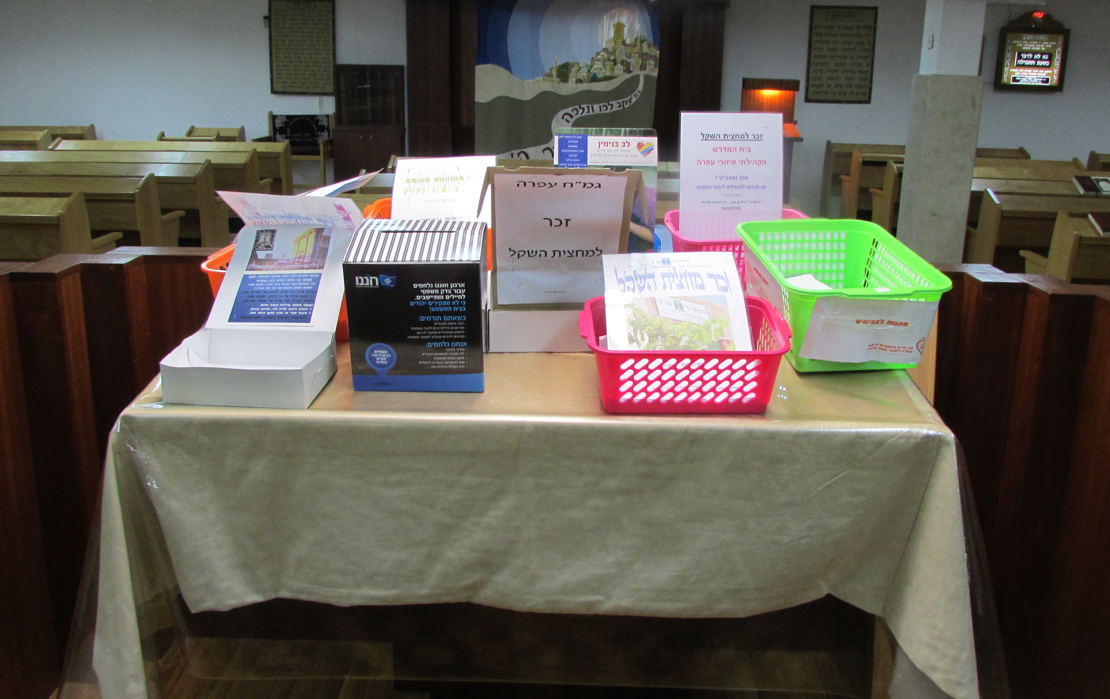 half Shekel money collection in Mizmor L'Asaf synagogue, Ofra